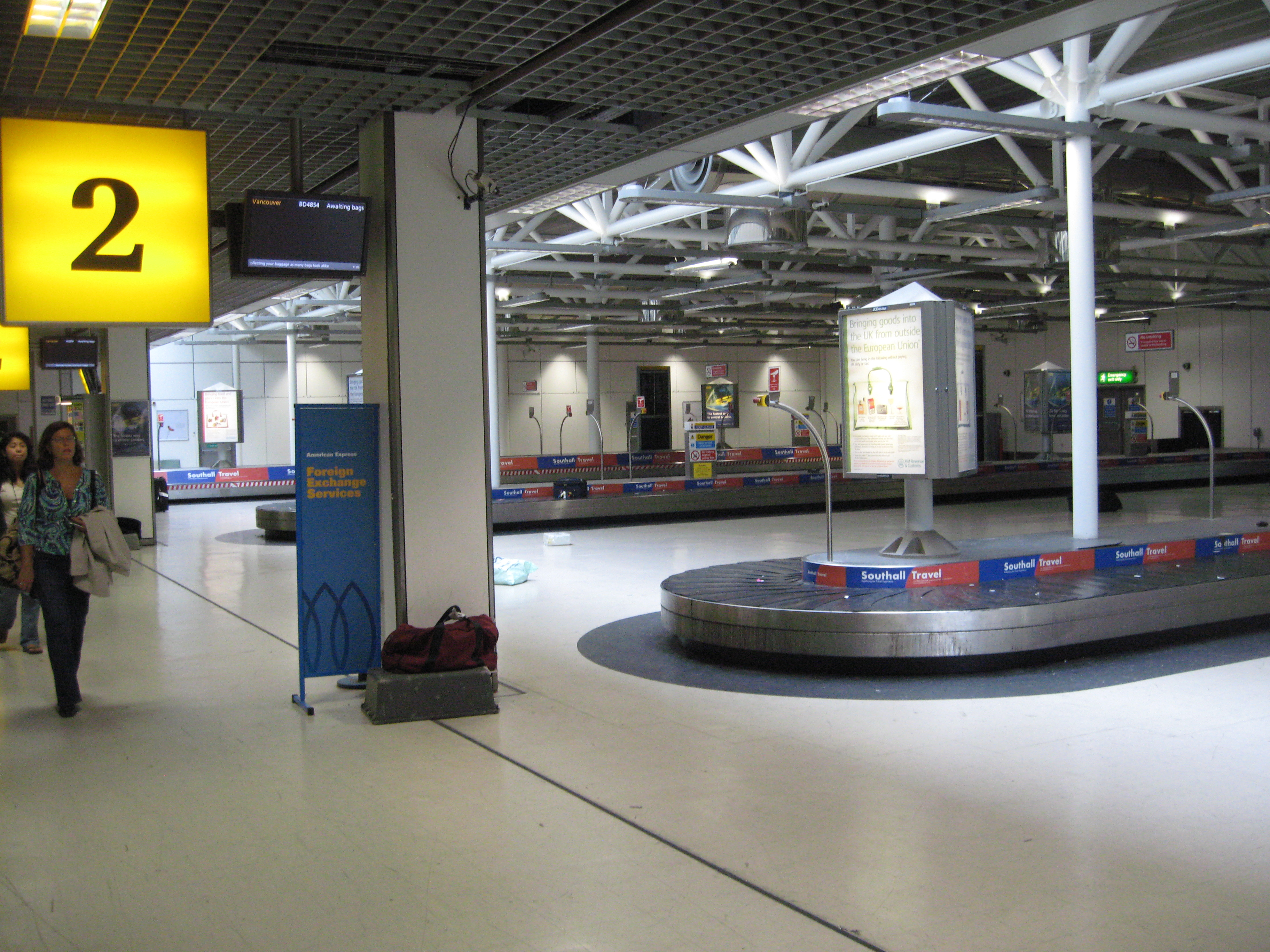 Baggage claim at London Heathrow Airport.